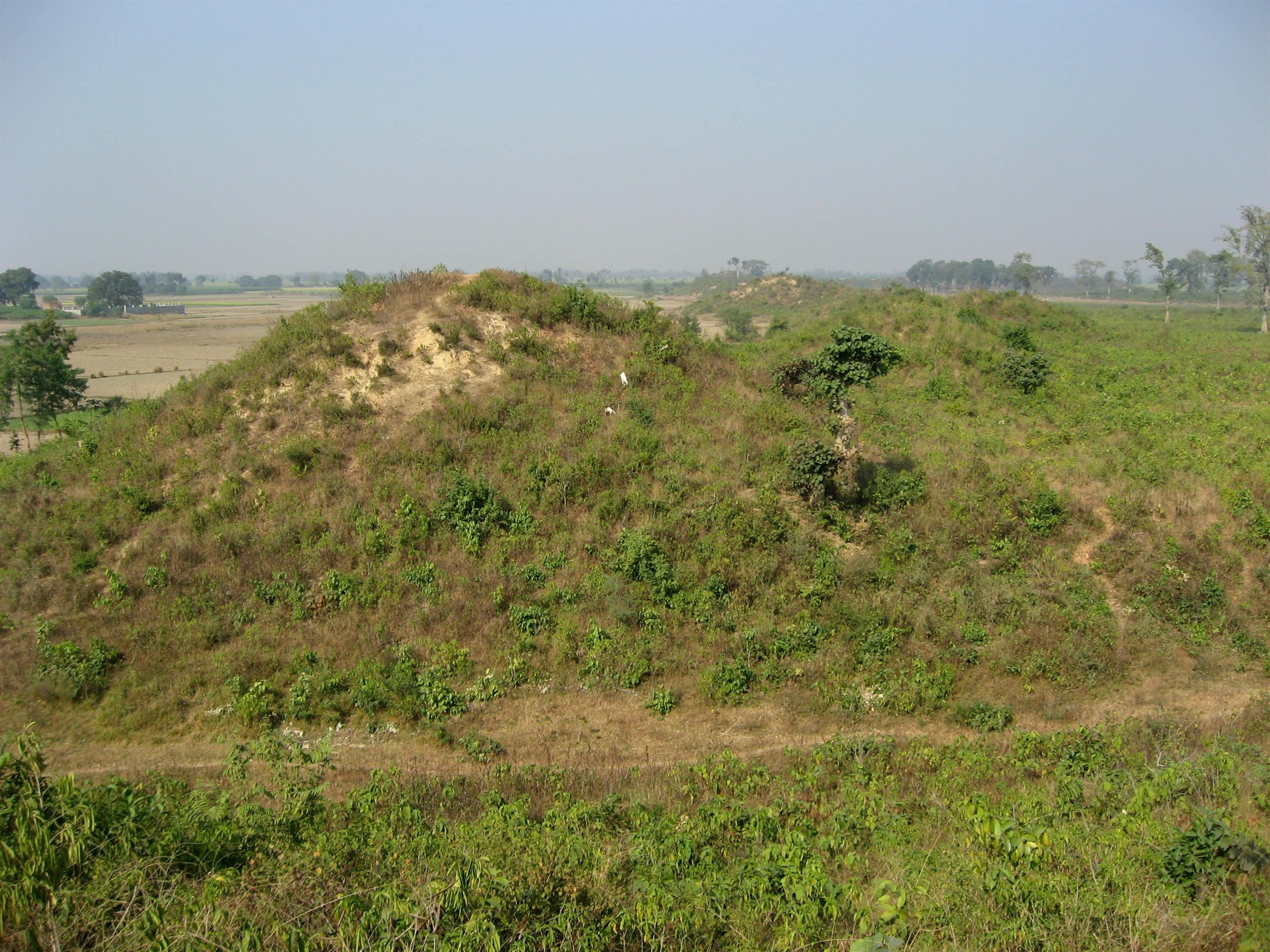 View of the old city walls of Sravasti. The walking-path in the front is one of the four ancient major city gates of Sravasti. This gate is the gate closest to Jetavana Monastery, and so many monks would have walked through this gate (every day) when going alsmround in Sravasti.